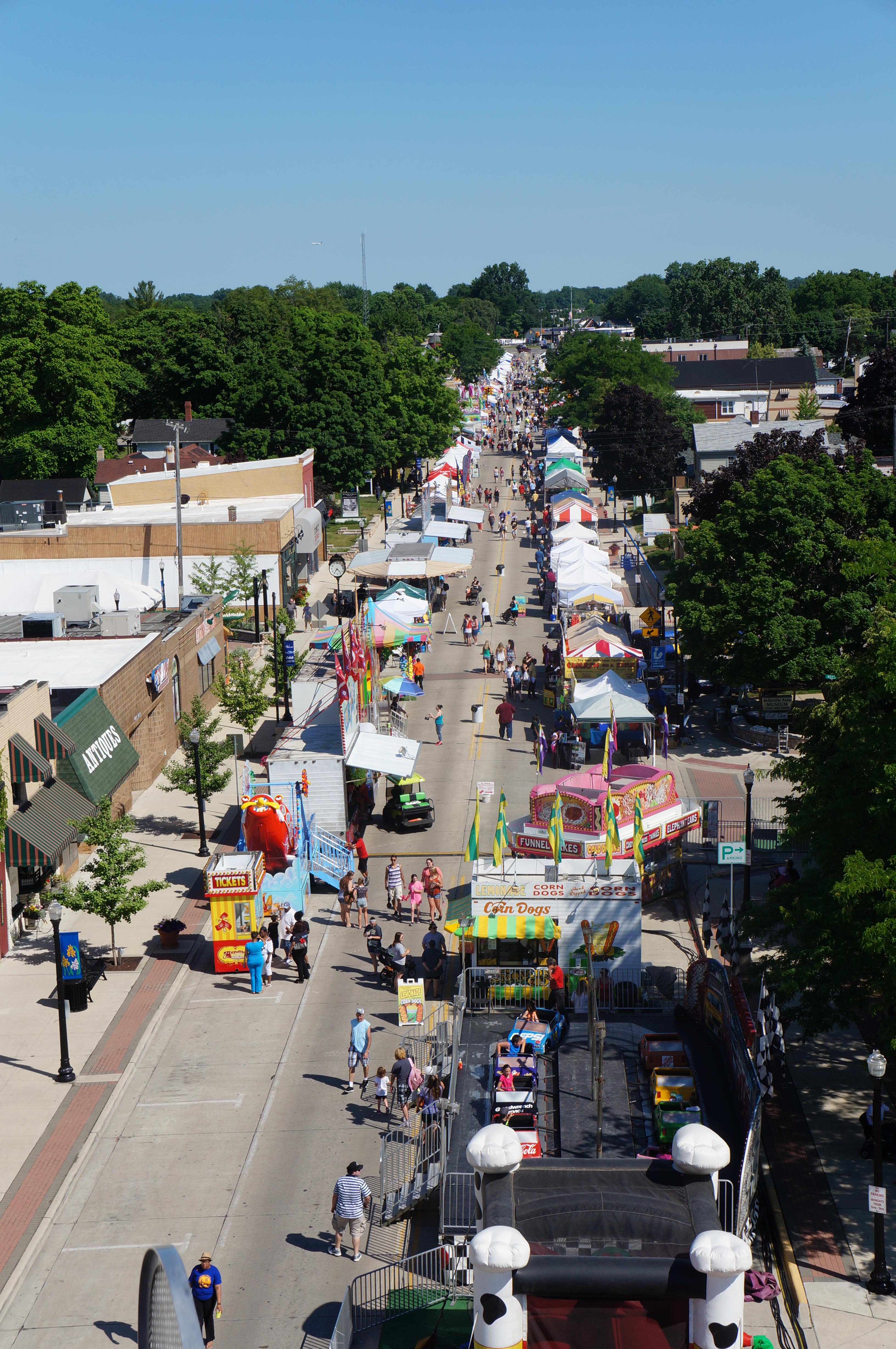 A shot of main street on the first day of the Belleville National Strawberry Festival from the Ferris wheel